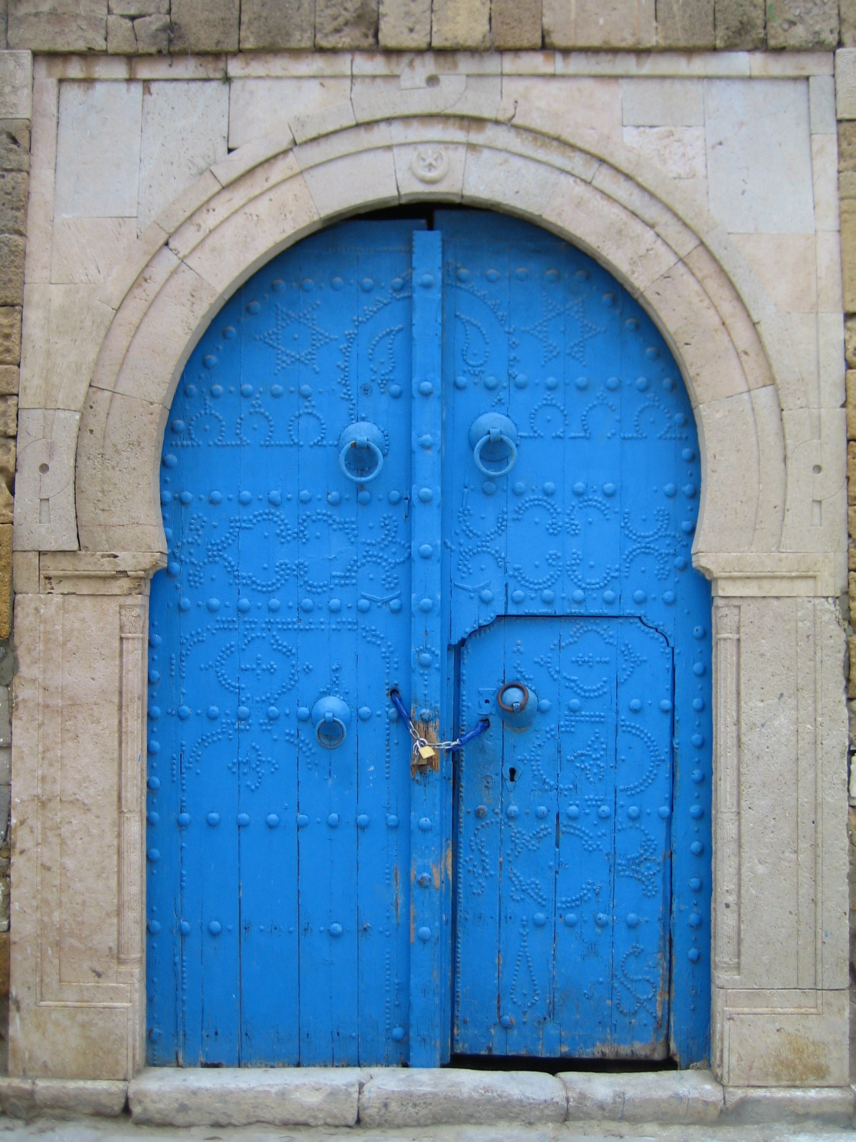 50-px.